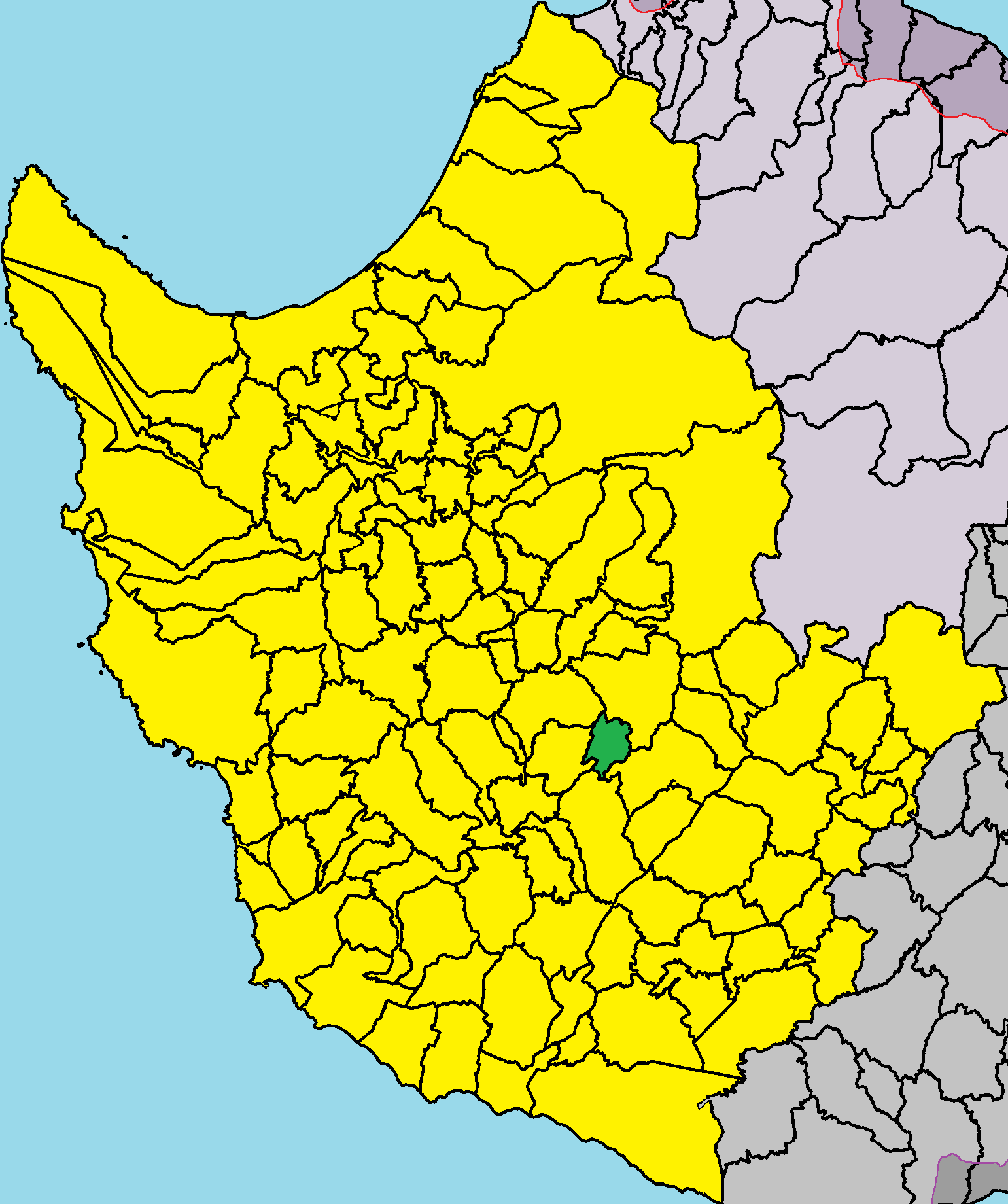 Faleia in Paphos District.